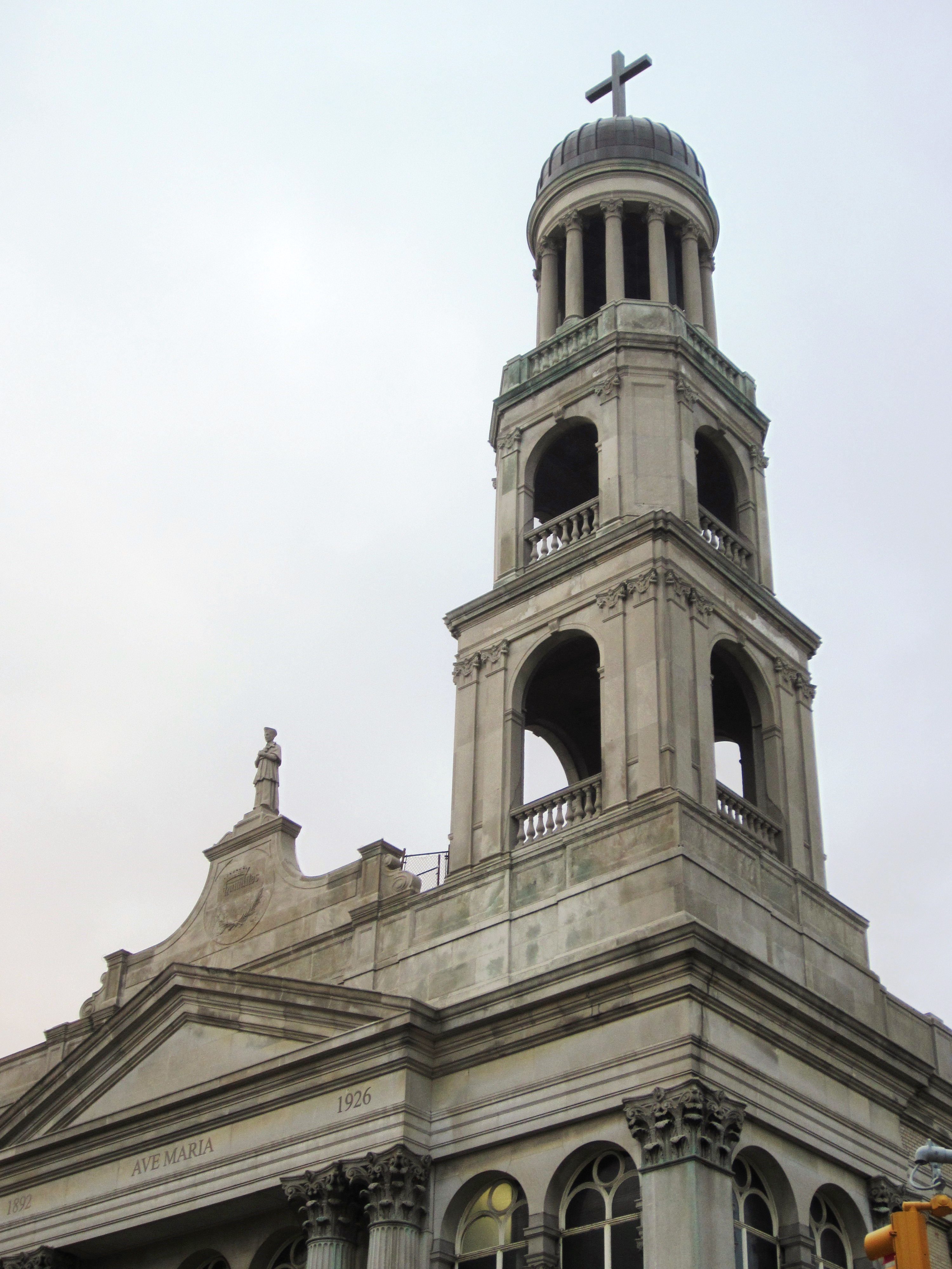 Our Lady of Pompeii Church, Manhattan, NYC (May 2014)